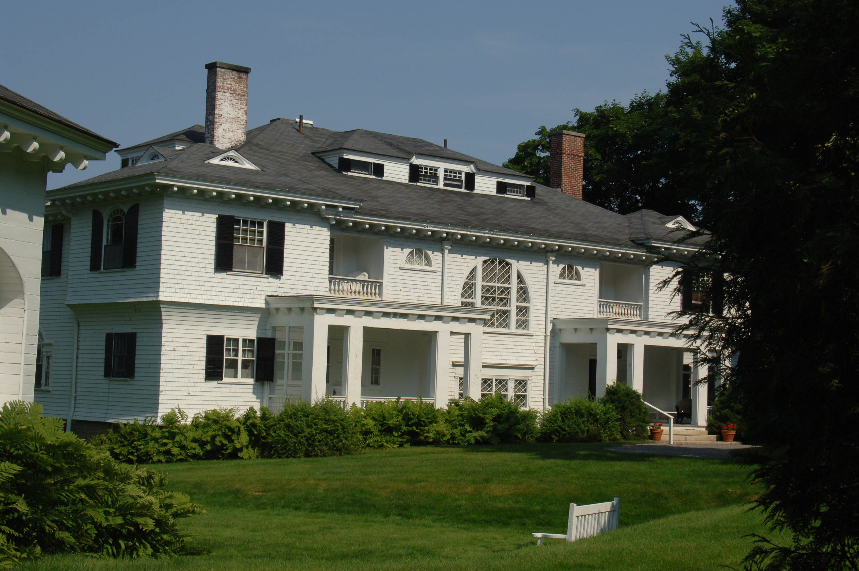 1895 ELEGANT COLONIAL REVIVAL SUMMER COTTAGE DESIGNED BY FRED L. SAVAGE